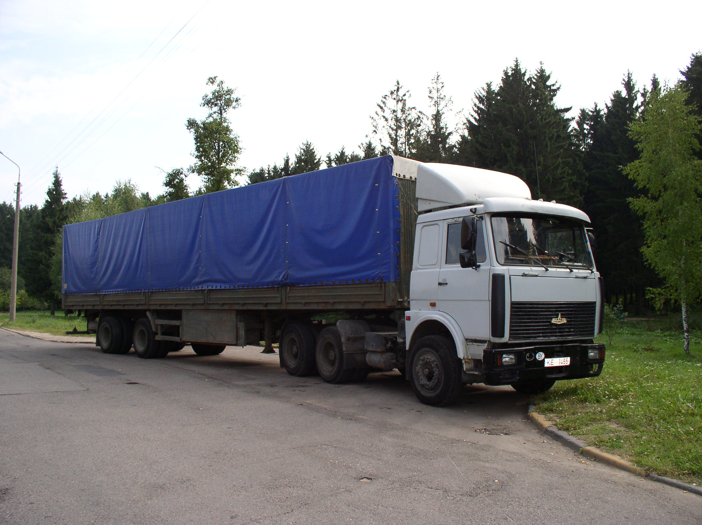 Truck "MAZ-6422". Minsk, Belarus.